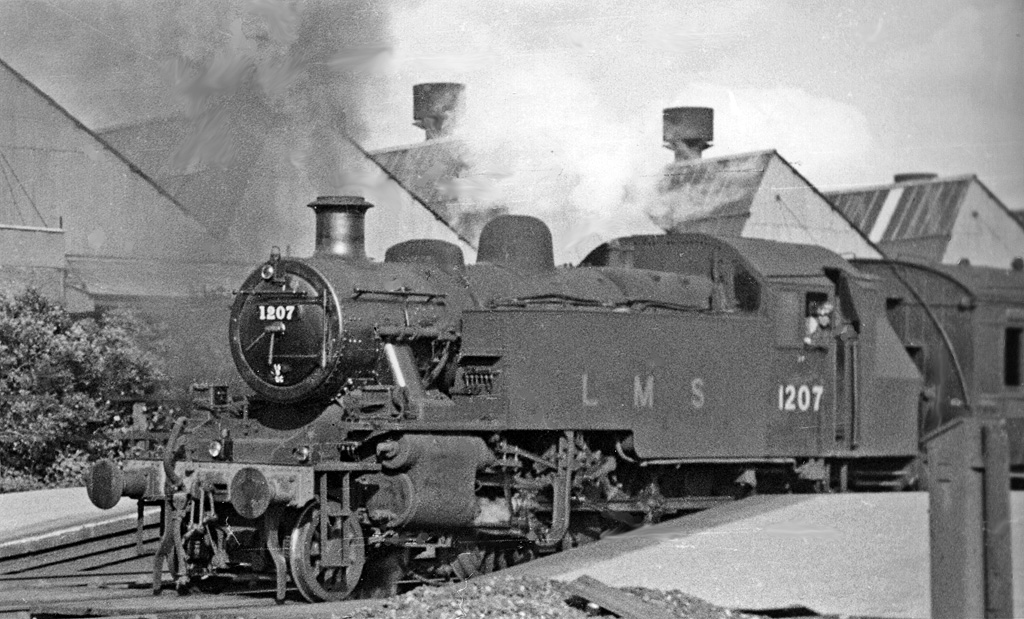 Local train at Cricklewood. View southward, towards St Pancras; ex-Midland Main Line. The locomotive is fairly recently built LMS-type Ivatt 2MT 2-6-2T No. 1207 (still in LMS livery), working a St Pancras - St Albans local.